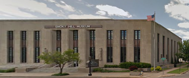 US Post Office and Federal Building-Salina